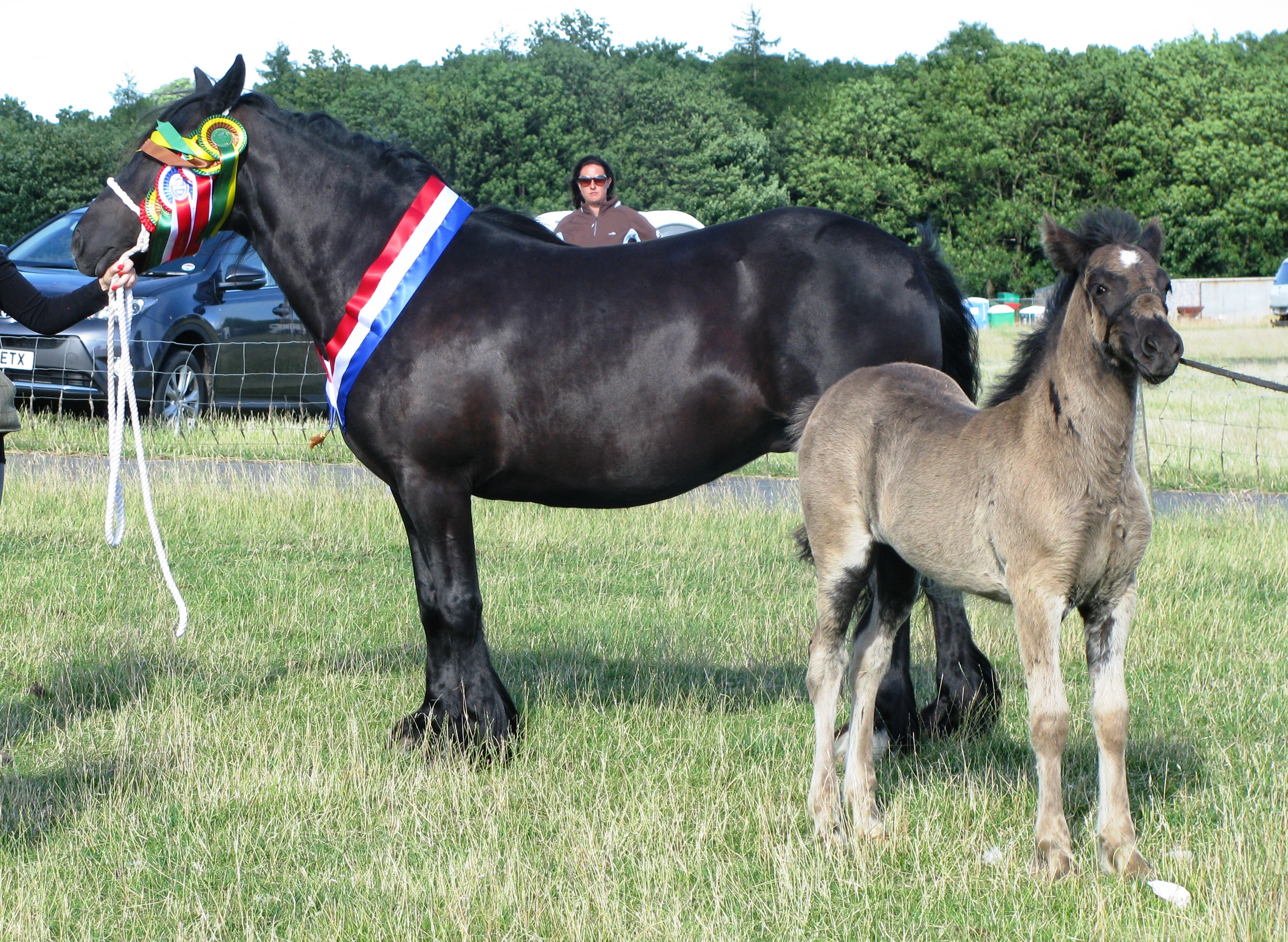 Dales Pony mare and foal, champion at society breed show in 2013.